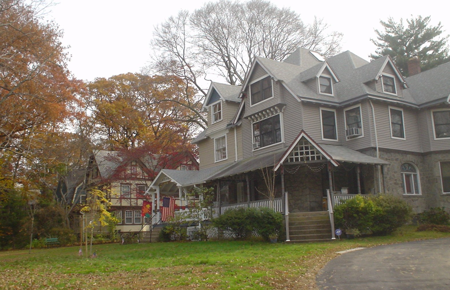 In Lansdowne, PA - house Albertson development c 1890-1940. On NRHP. this photo is my own work and I donate it to the Public Domain.